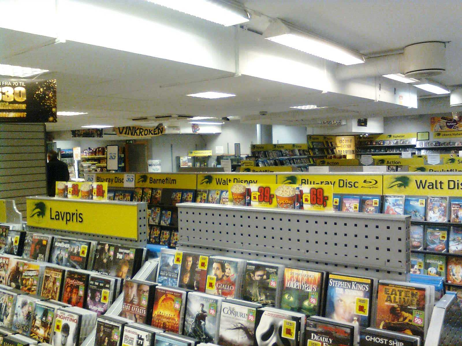 Riwa video in Heimdal, Trondheim. It was the last video rental store in Trondheim. Closed in 2016.